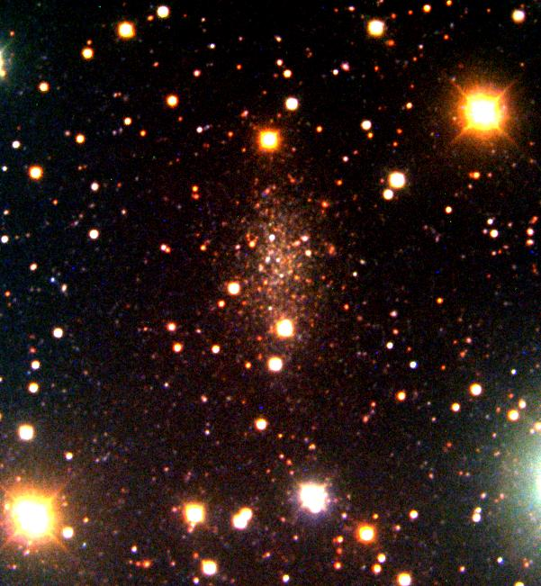 The image was obtained by Deidre A. Hunter of Lowell Observatory. It is an UBV image, with blue representing the U-band (UV), green representing the B-band (blue), and red assigned to the V-band (visible light). It was taken from D.A. Hunter's UBV colection.